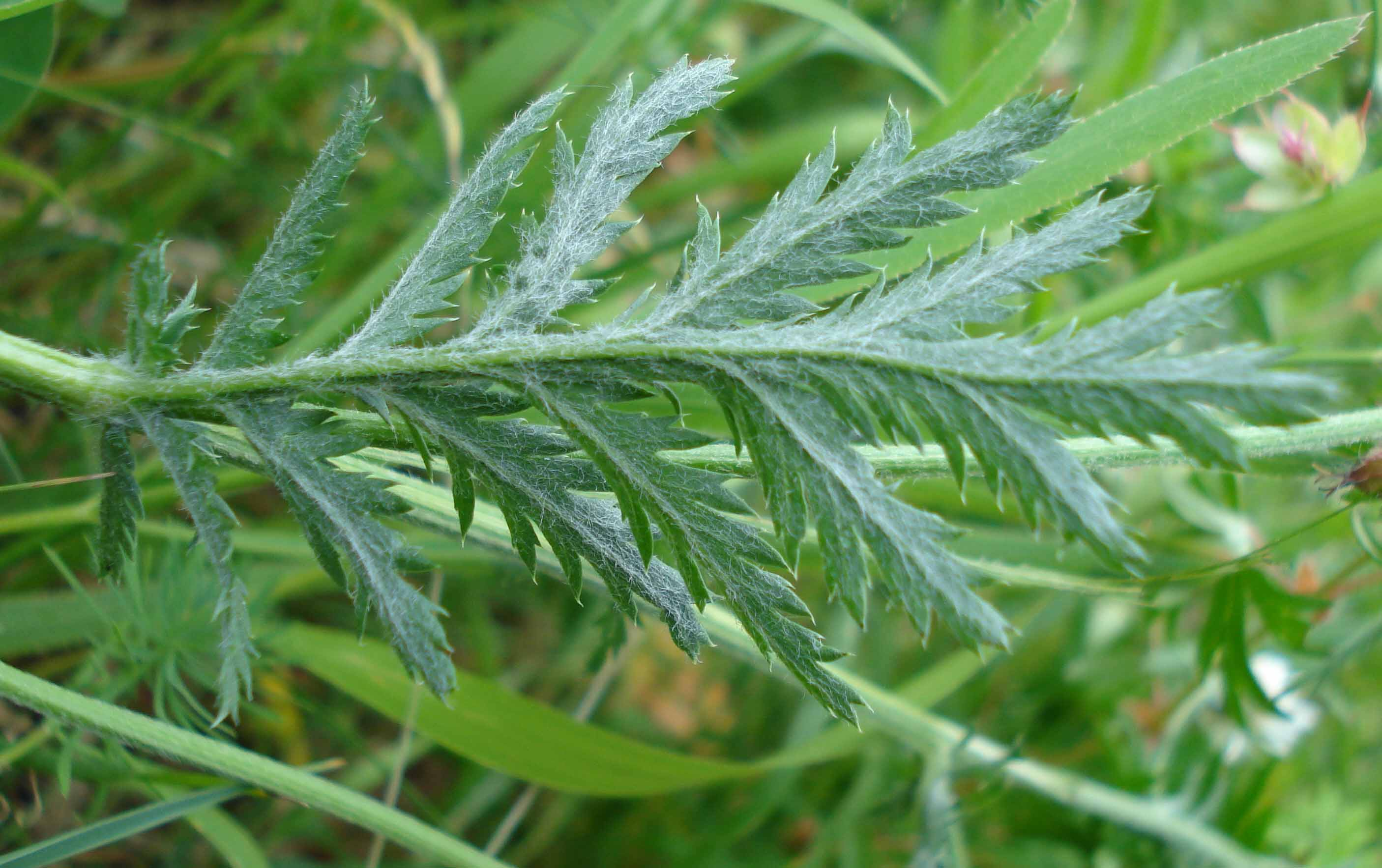 Tanacetum corymbosum (Unterfranken, Germany)